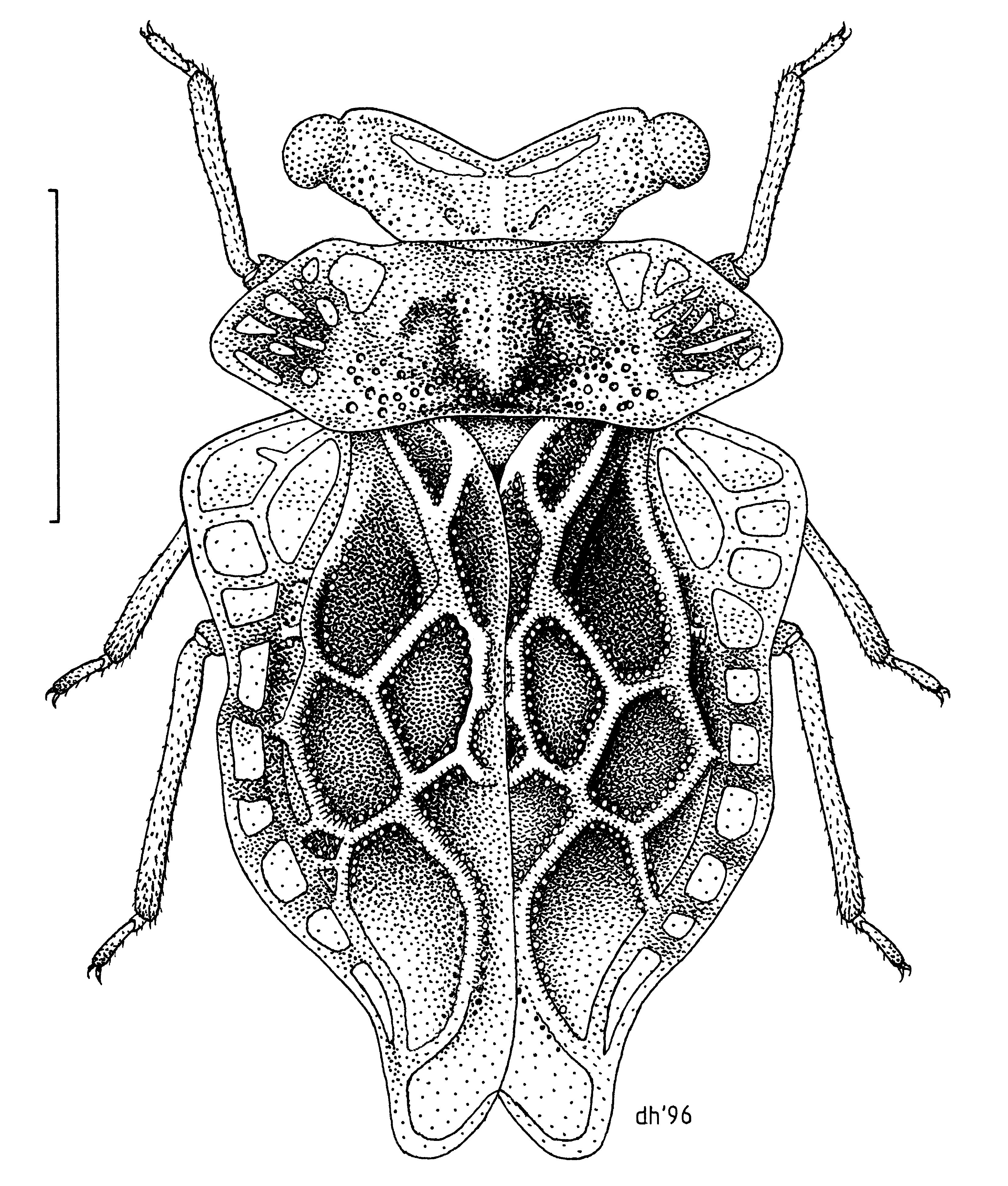 (Hemiptera: Peloridiidae) Oiophysa distincta illustrated by Des Helmore.